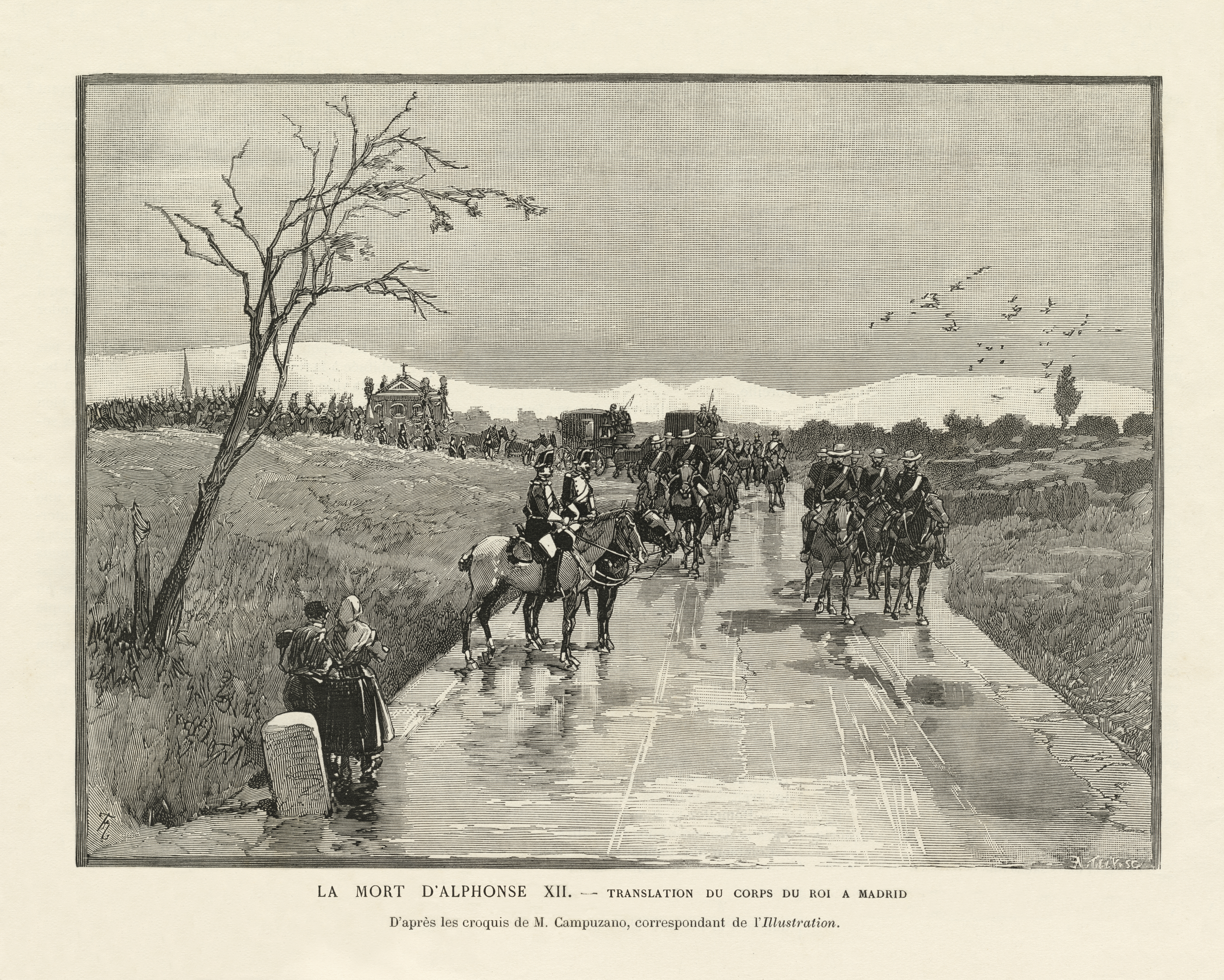 Picture of the funeral procession of King Alfonso XII of Spain to Madrid. Text reads: "LA MORT D'ALPHONSE — translation du corps du roi a Madrid. D'après les croquis de M. Campuzano, correspondent de l'Illustration"